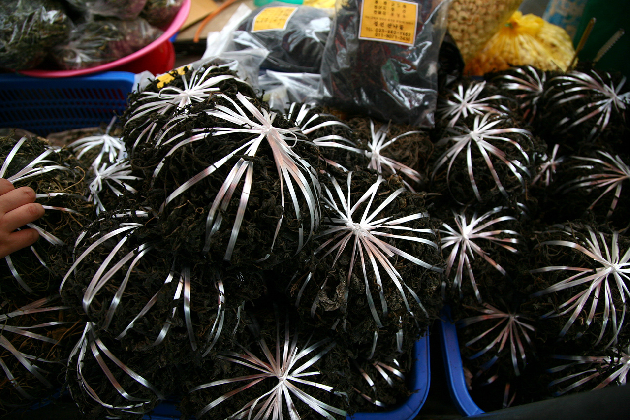 A view of a market in Seongseon, Gangwon province, South Korea